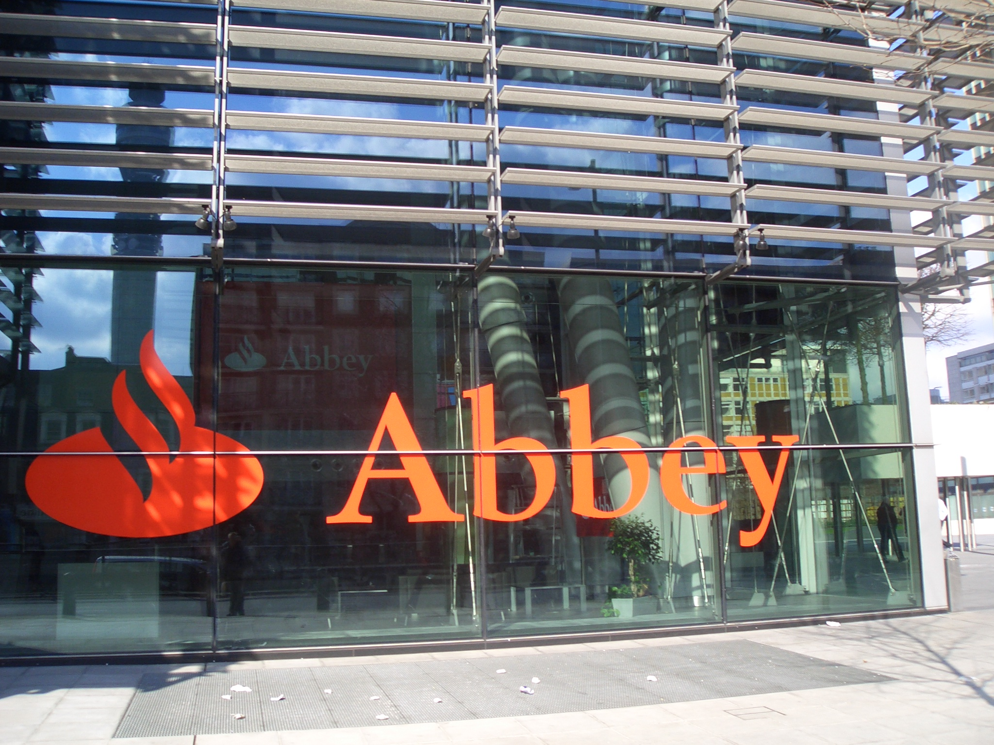 Photo of the Abbey National plc head office at 2 Triton Square, Regent’s Place, London, NW1 3AN taken 3 March 2005